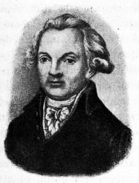 Henrik Liljensparre, policeman conducting the investigation of the regicide of king Gustav III of Sweden in 1792